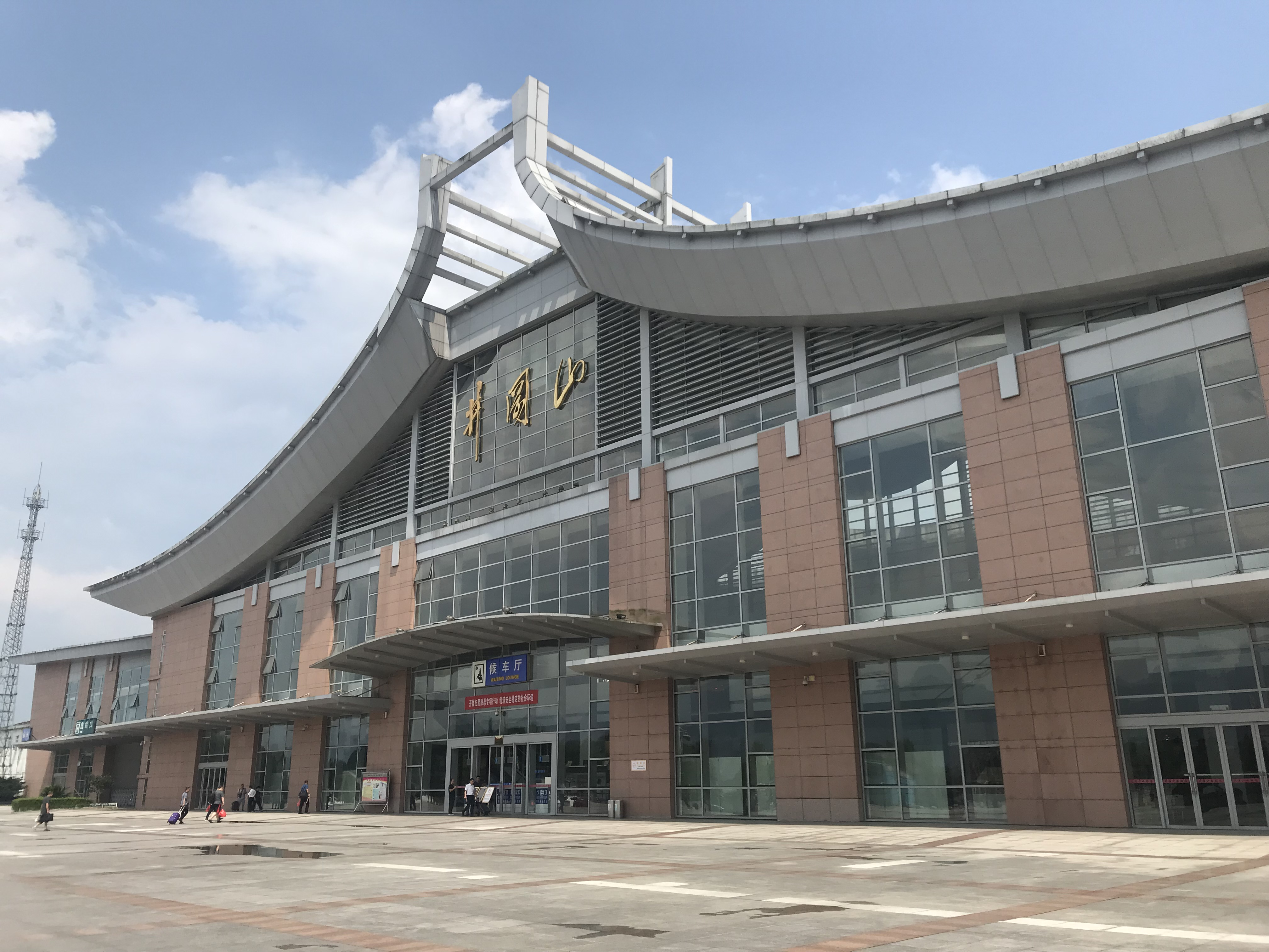 201906 Station Building of Jinggangshan